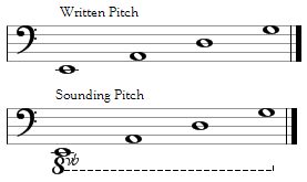 Pitches of double bass's strings in standard orchestral tuning